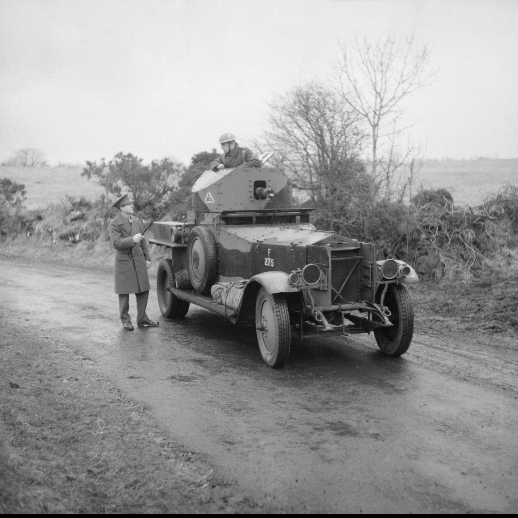 1920 pattern Rolls-Royce armoured car of the North Irish Horse, Northern Ireland, 28 January 1941.